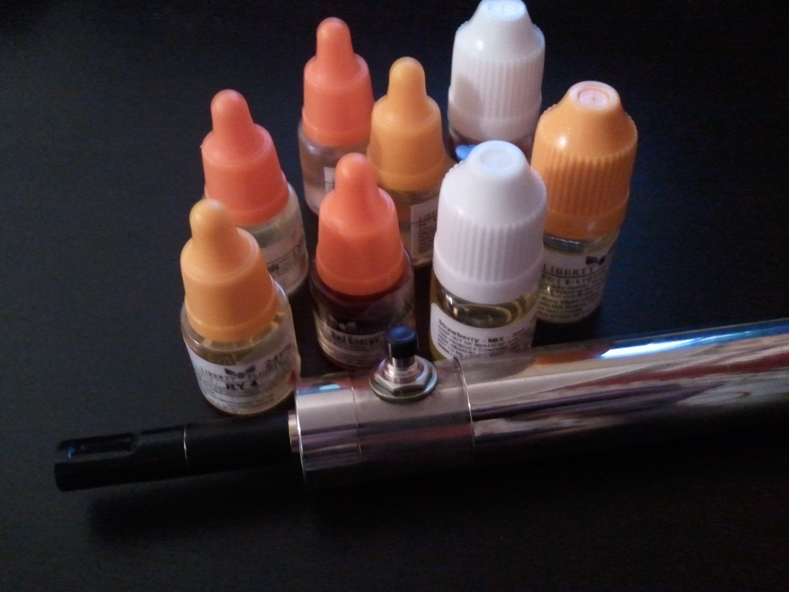 Some e-liquids from Liberty Flights and my new 510N chinese mod, with a new button.